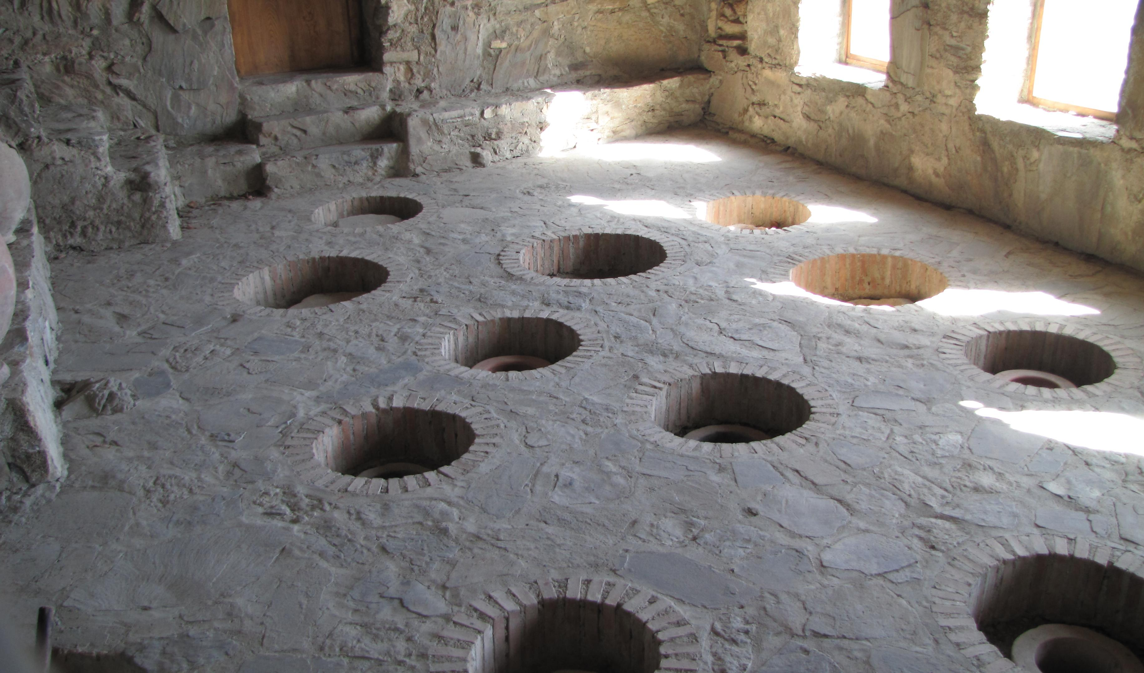 Nekresi wine cellar